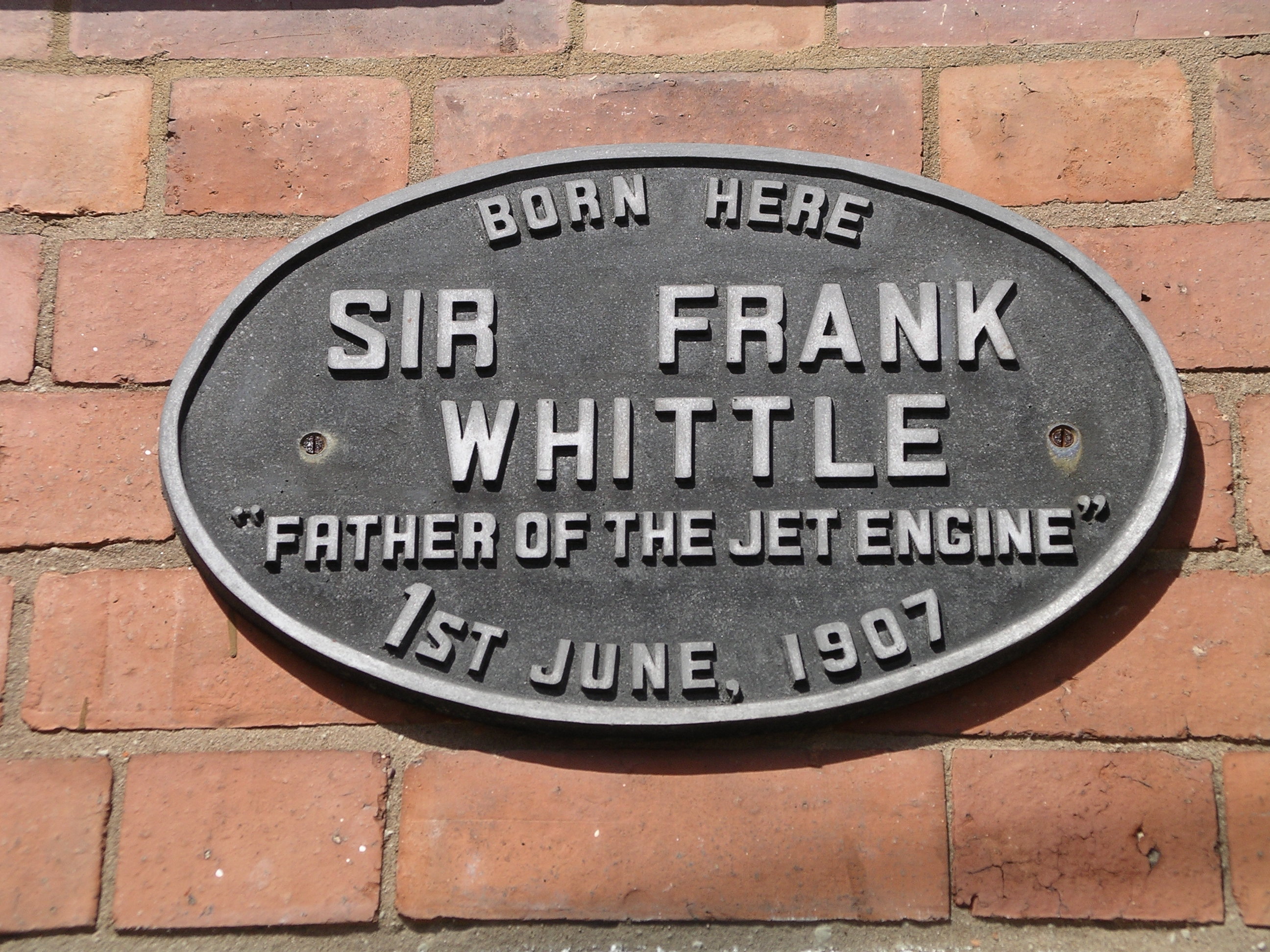 Photo of the commemorative plaque on the house that Frank Whittle lived in. It is in Earlsdon, Coventry, England.